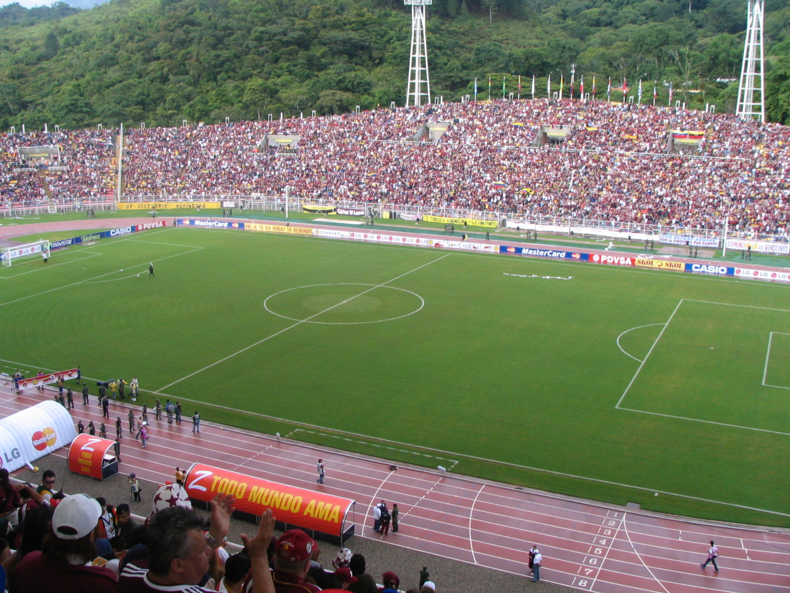 Polideportivo Pueblo Nuevo Stadium, in the city of San Cristobal, capital of Tachira State, in the Andes of Venezuela 1